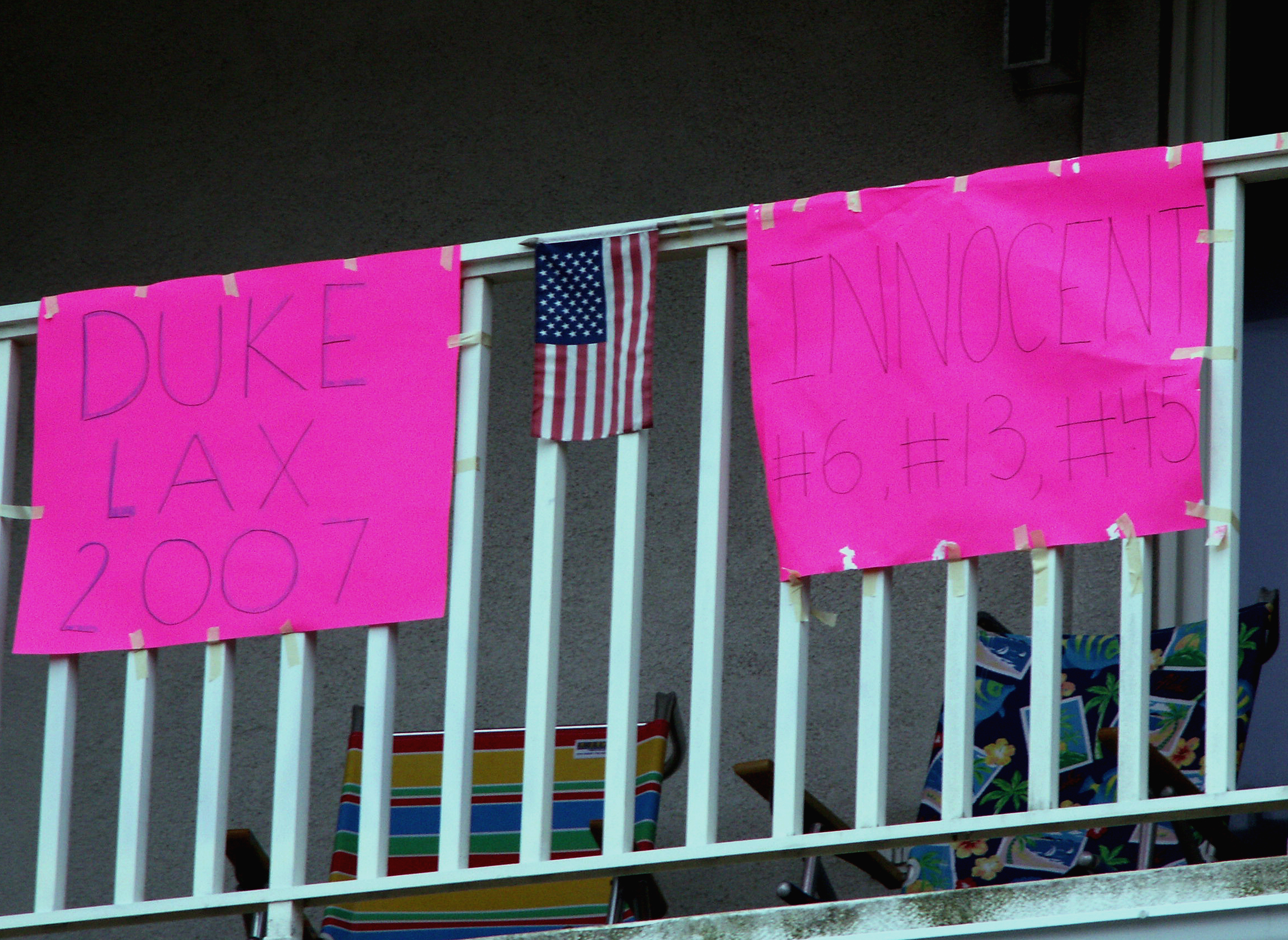 Balcony in Long Branch, New Jersey pleading the innocence of the accused Duke lacrosse players